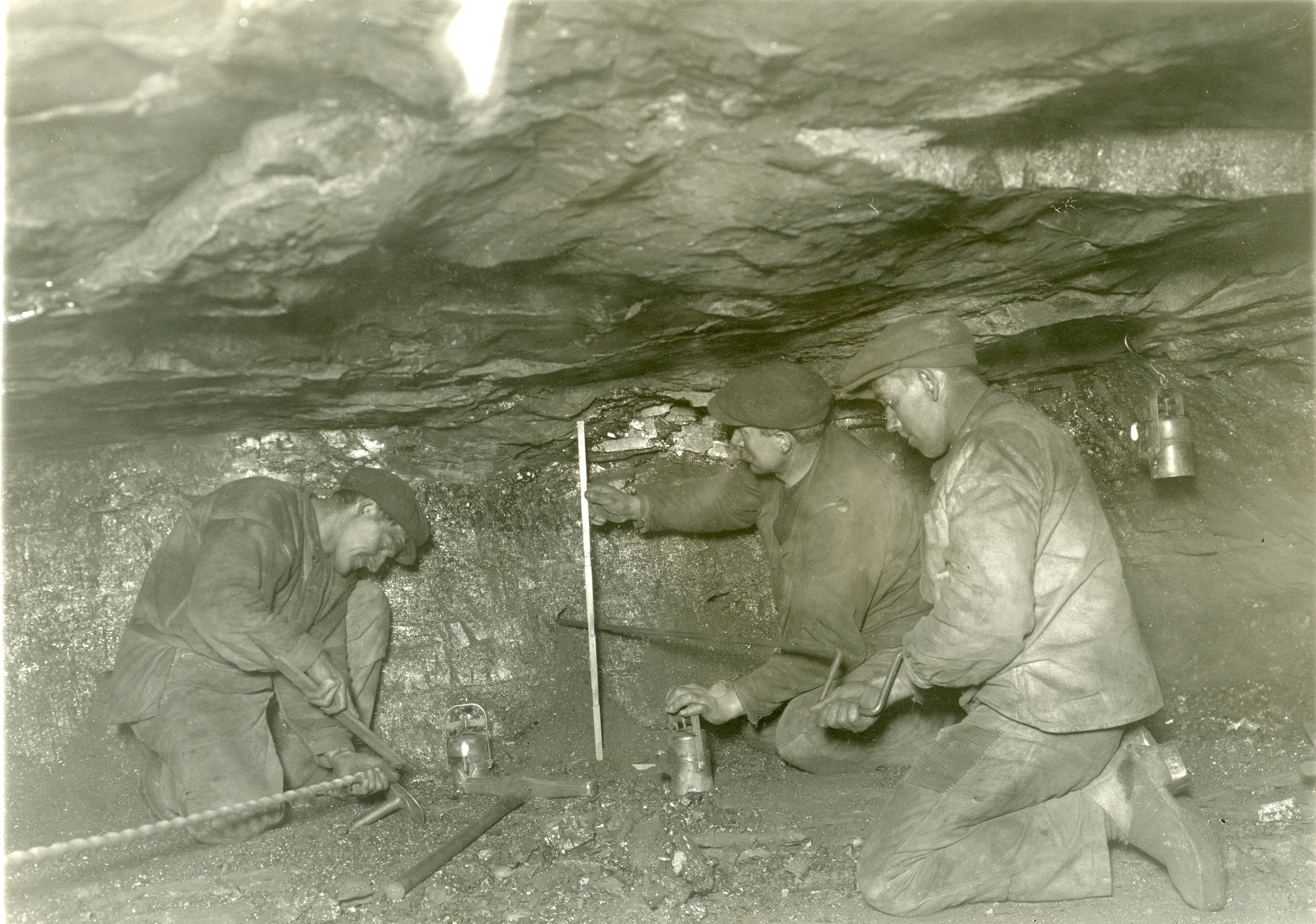 Miners in the Svea mine.